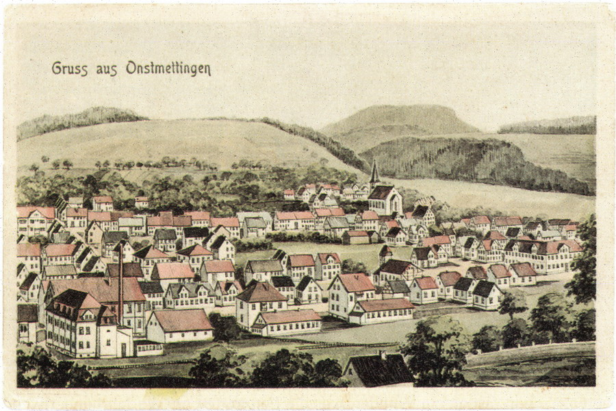 Post card view on Onstmettingen, about 1910